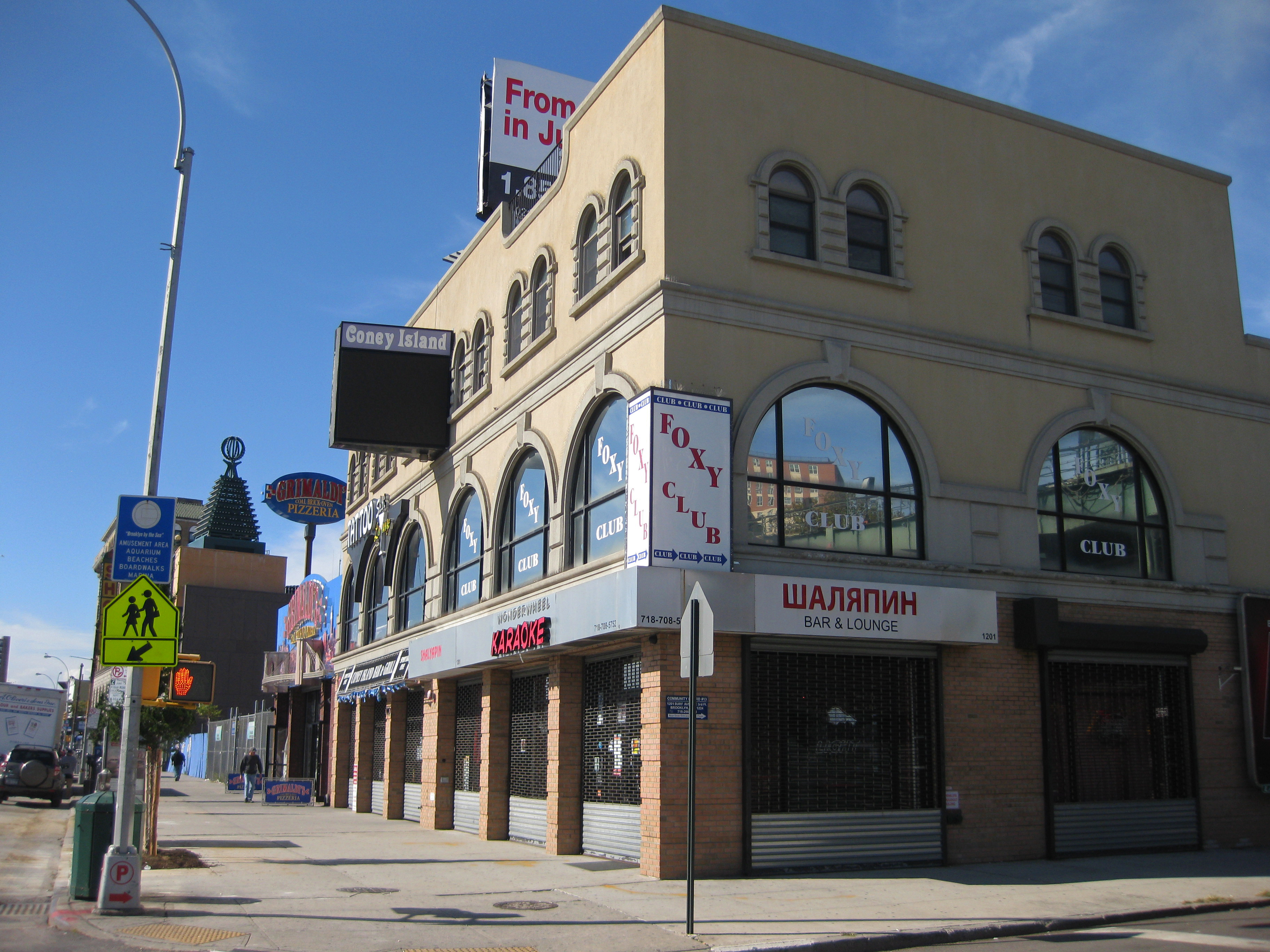 Coney Island, New York